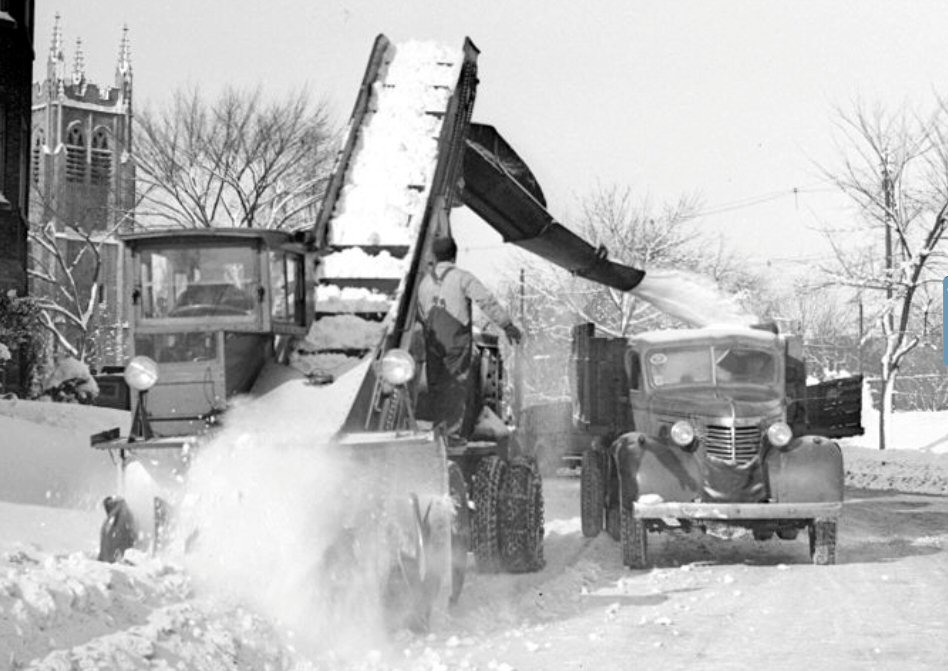 Snow removal in 1944 in Westmount, Quebec, Canada